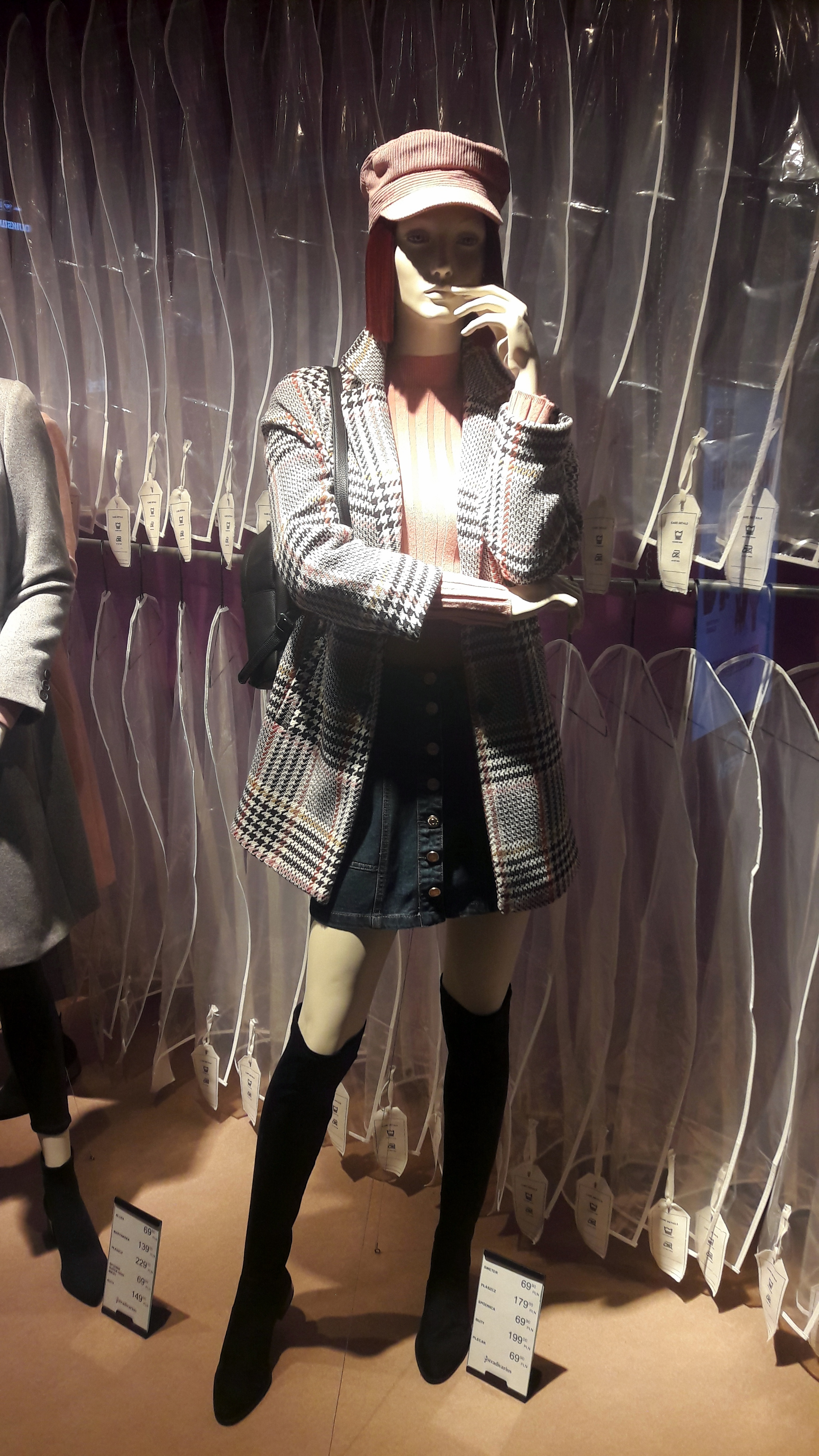 Fashion in 2018, Galeria Sfera